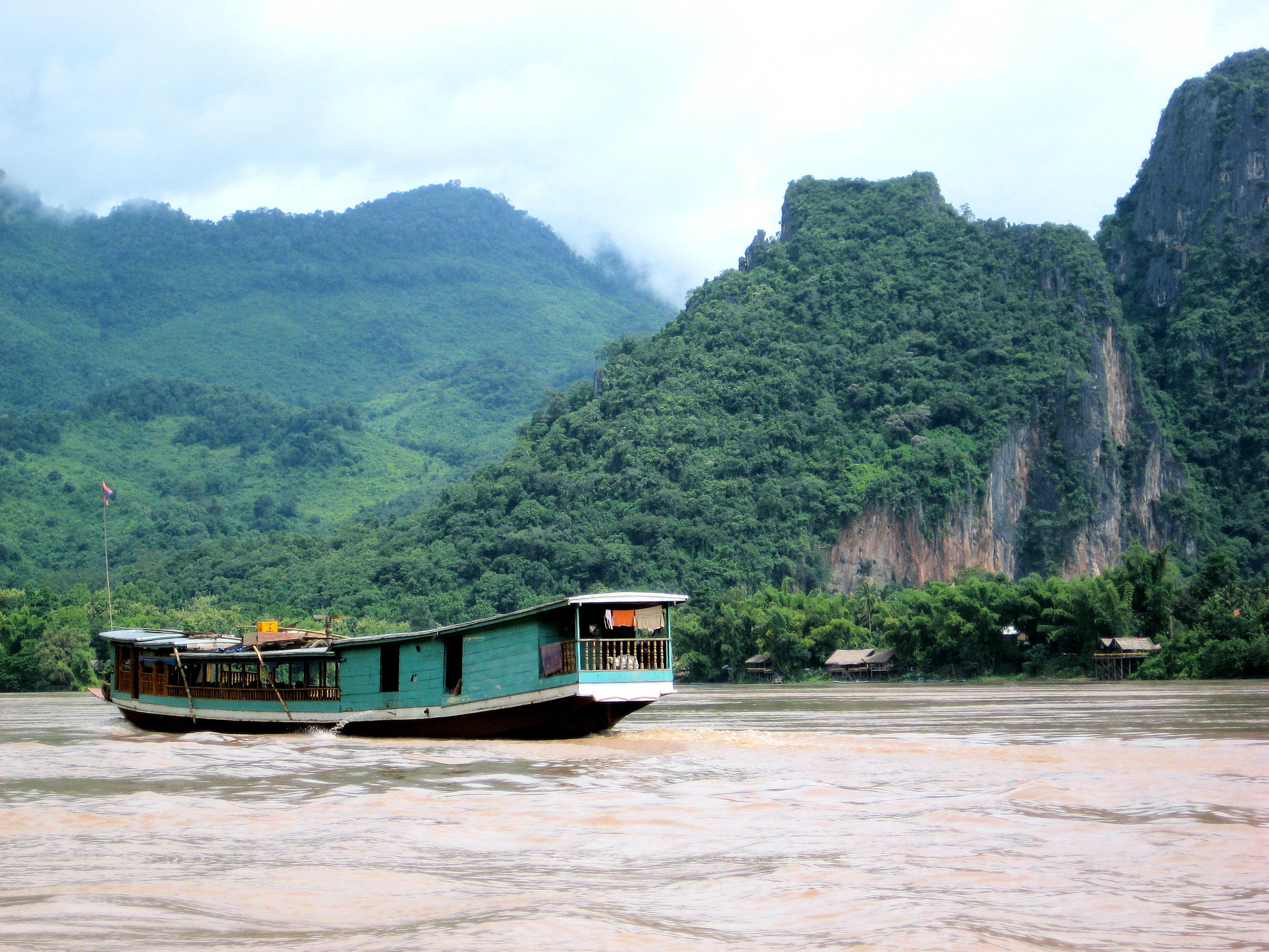 Navigating the Mekong